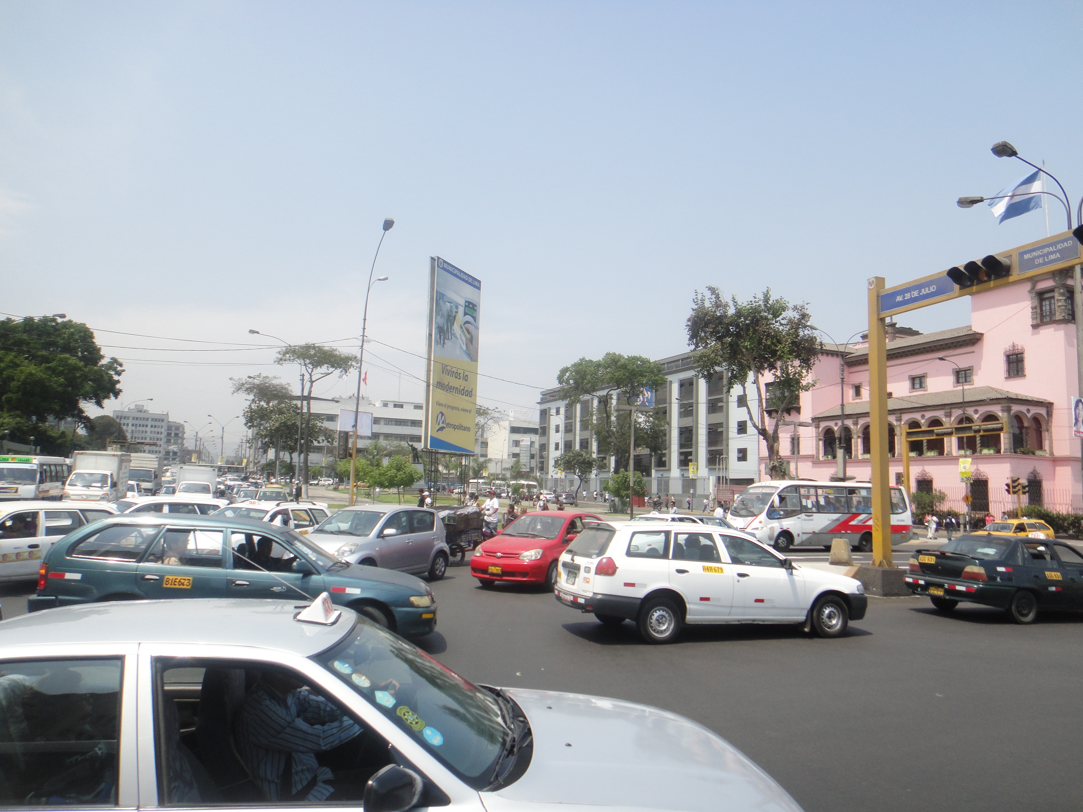 28 de Julio Ave. in Lima-Peru.